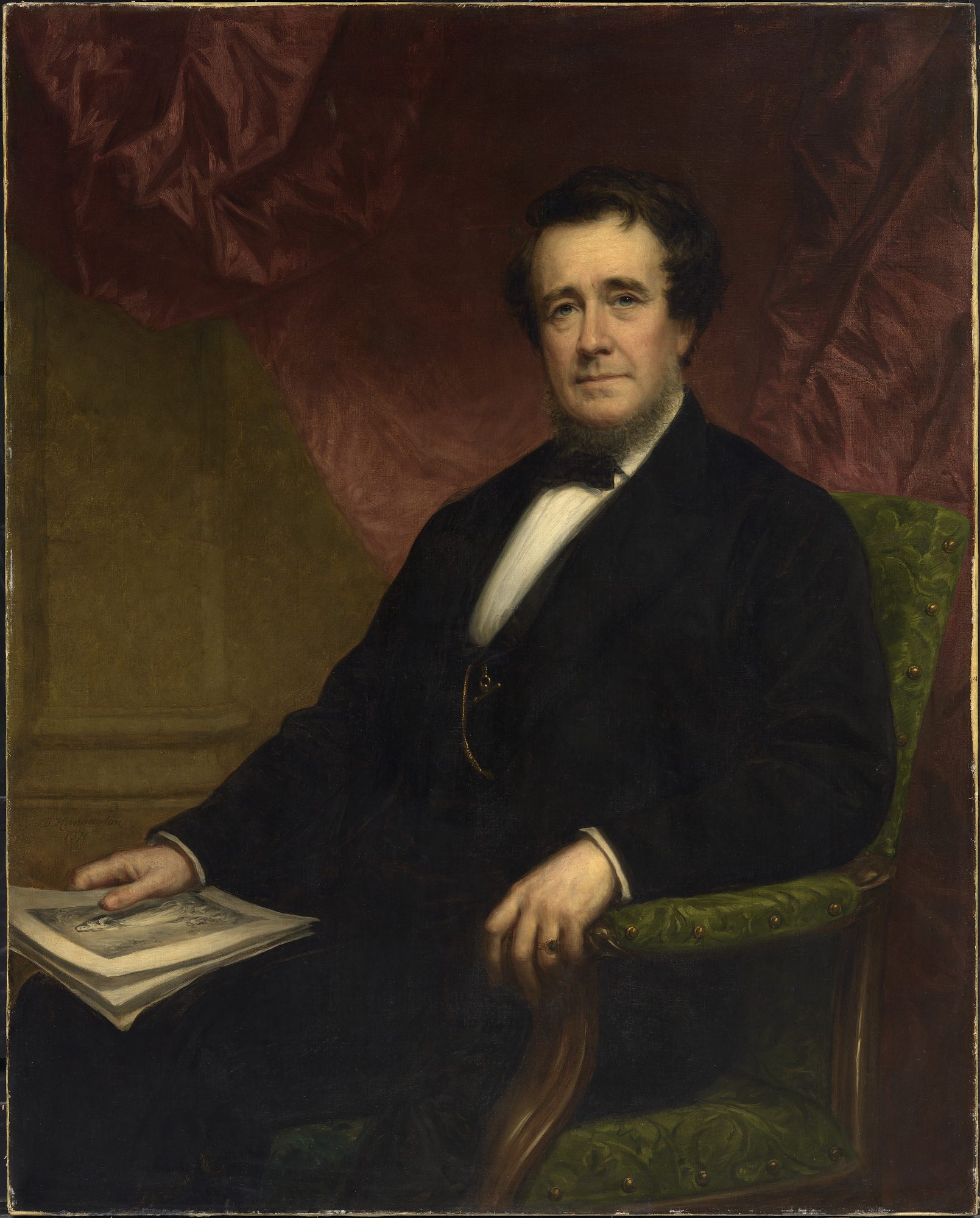 Portrait of William Henry Aspinwall (1807-1875) by Daniel Huntington (1816-1906)